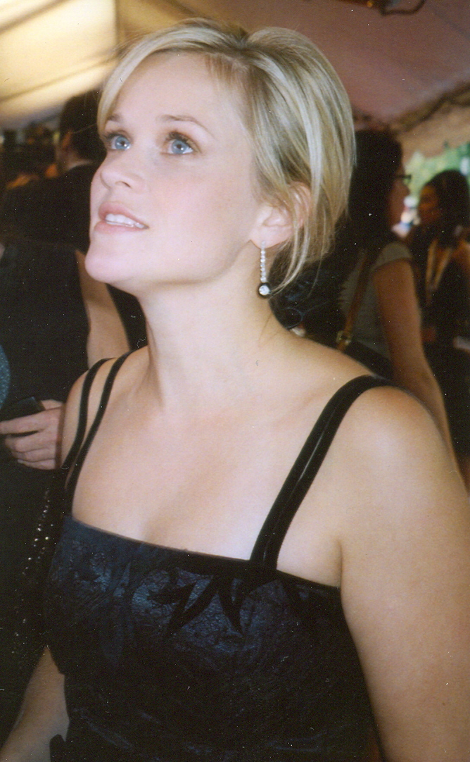 Reese Witherspoon being interviewed at the premiere of Walk The Line with Jerry Pinnocoli of Extra at the 2005 Toronto International Film Festival.